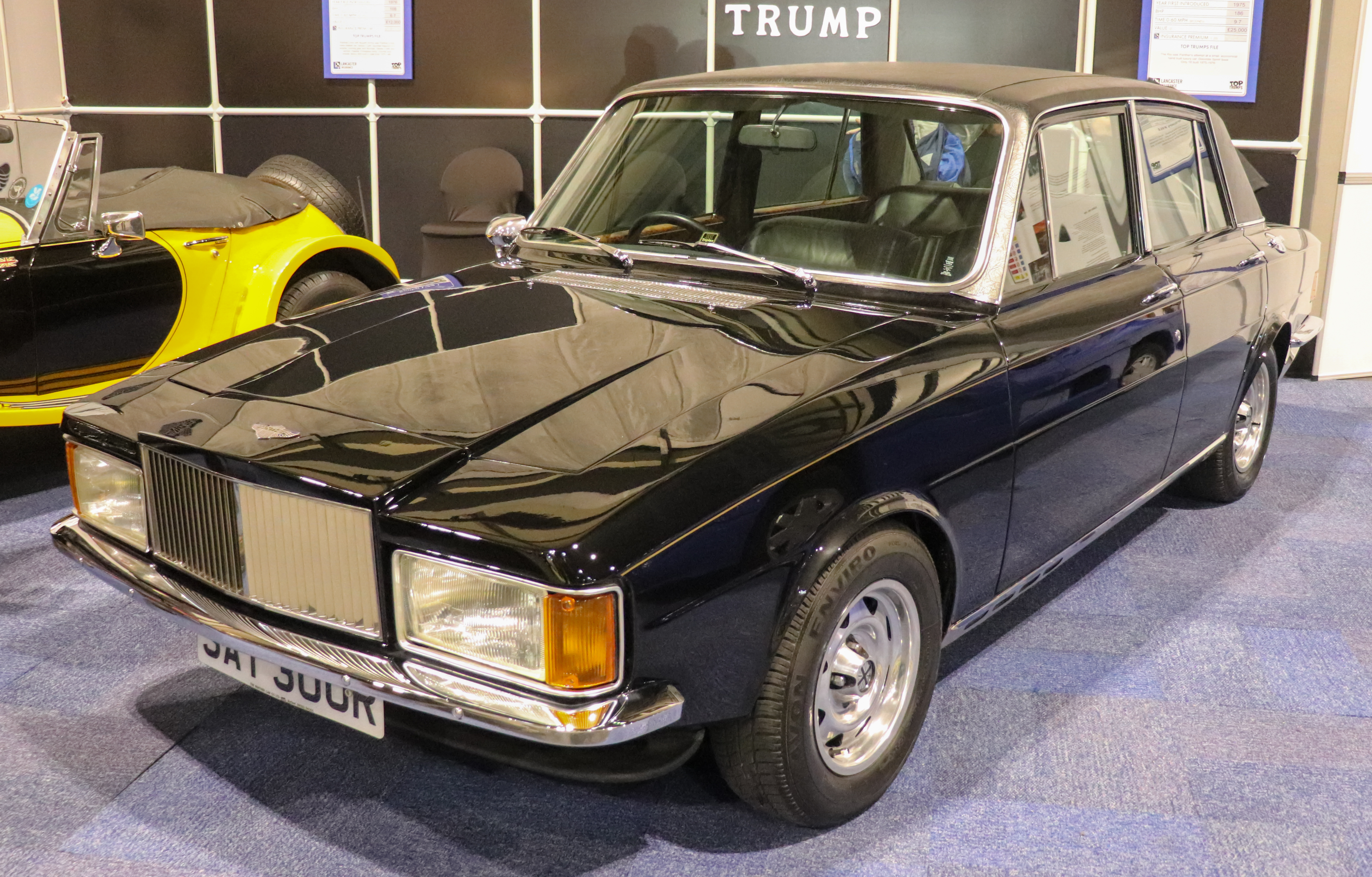 1977 Panther Rio 2.0 Taken at the NEC Classic Motor Show 2019